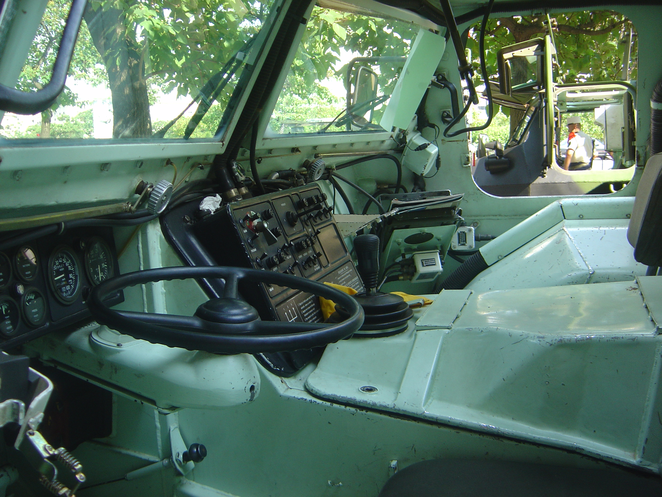 interior of the front of a VAB